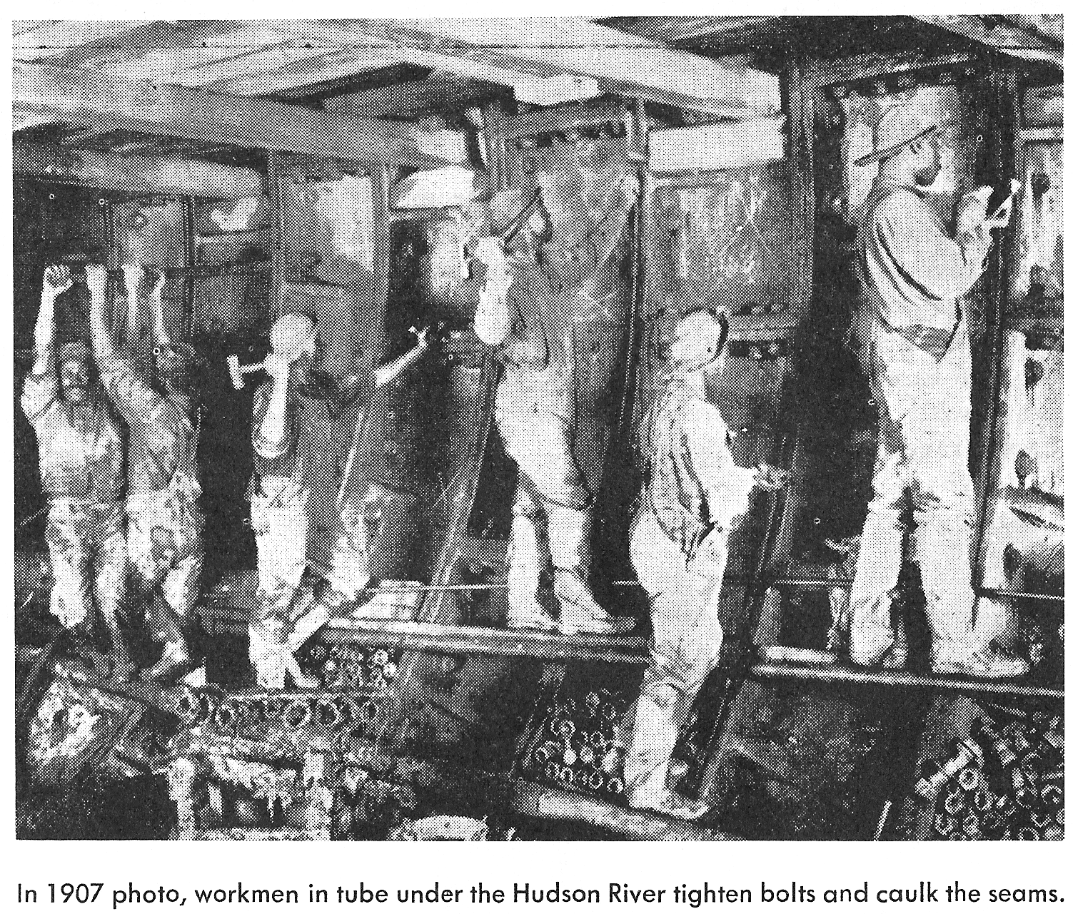 In this 1907 photo, workers in the Pennsylvania Railroad North River Tubes under the Hudson River tighten bolts and caulk the seams.